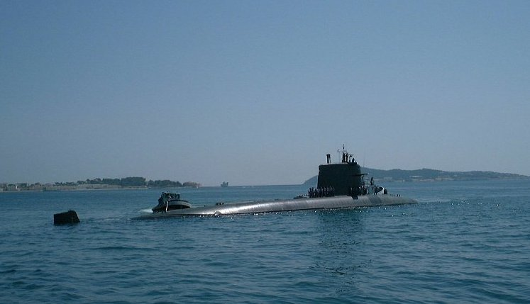 (no responsibility is taken for the correctness of this translation): Attack nuclear submarine Perle in Toulon harbour (May 2000).